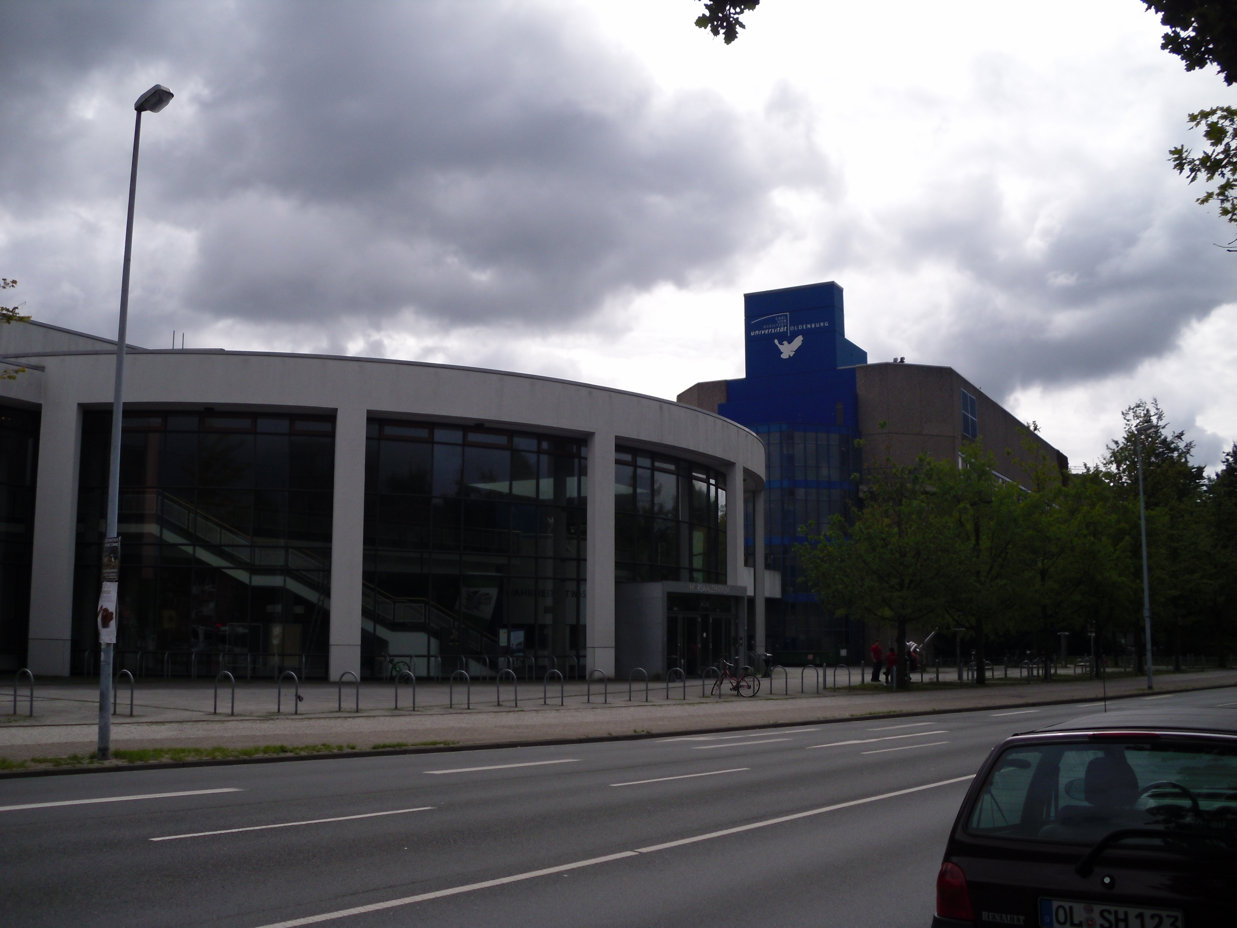 The auditorium of the University of Oldenburg